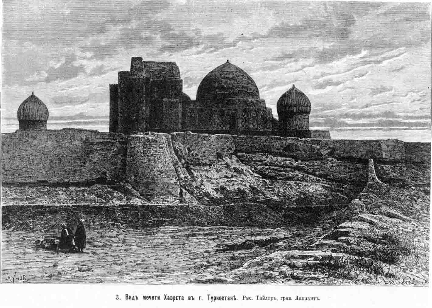 View of the Mazar of Shaikh Ahmad Yasavi in the Town of Turkestan. This image comes from the Russian Illustrated Magazine 'Niva' and was originally published c.1879.